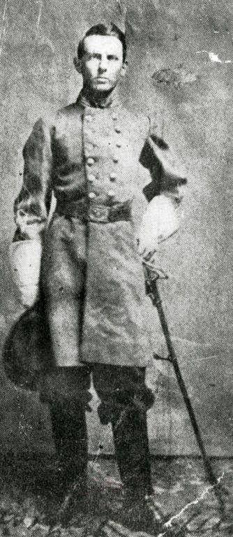 Captain Lewis Harman, 12th Virginia Cavalry, ca. 1864, VMI Archives Digital Collections